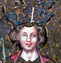 Conrad II, Holy Roman Emperor